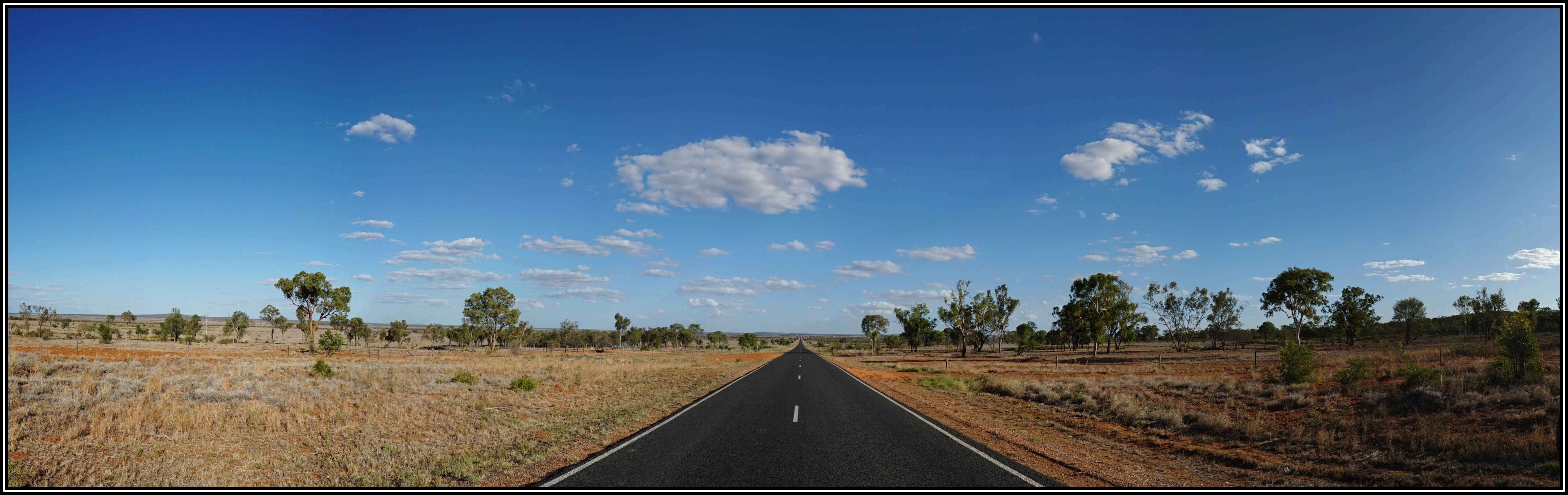 Wide, flat and stark; 180 degree pan looking down the Gregory Developmental Rd, Belyando QLD 4702, not very much going on at all! Peter Neaum.